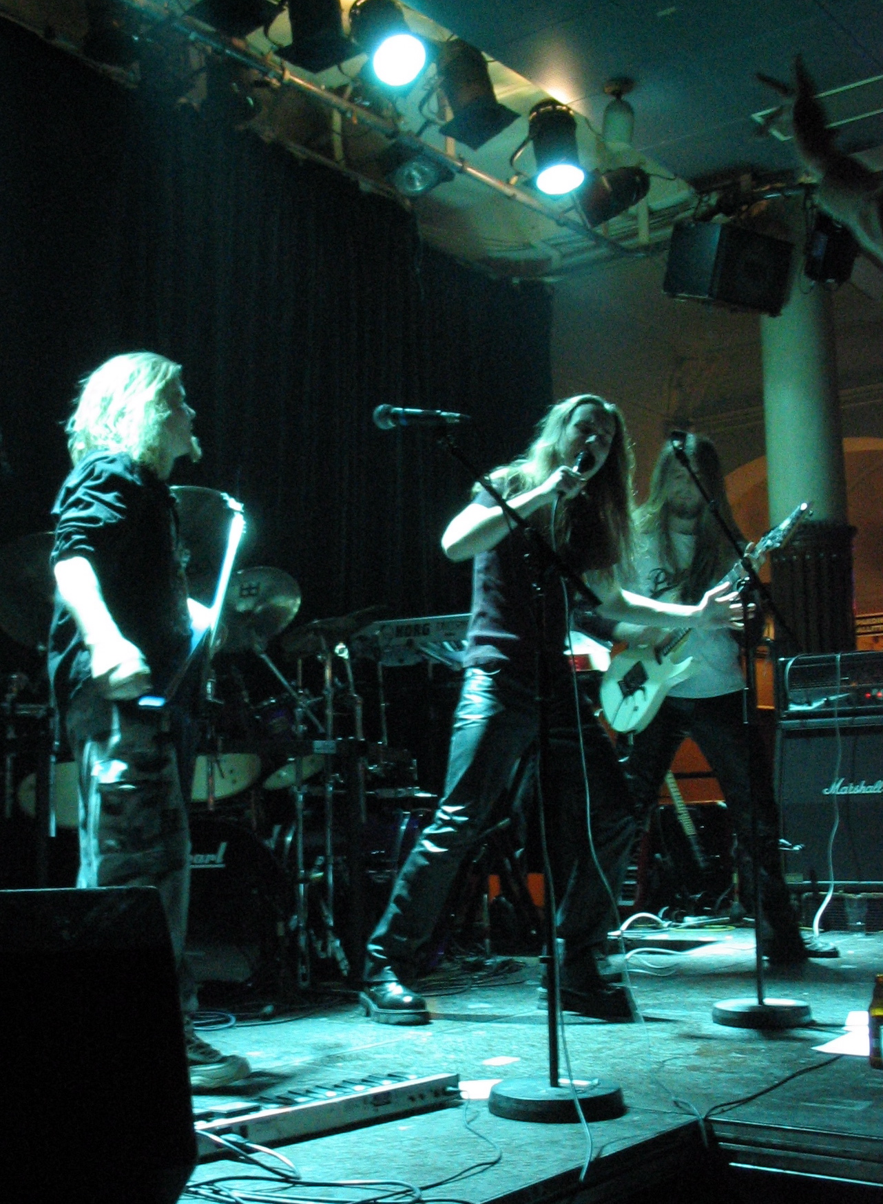 The Finnish power metal band Dreamtale performing at YO-talo in Tampere, Finland, in February, 2004. From left to right, guitarist Rami Keränen, vocalist Jarkko Ahola and guitarist Esa Orjatsalo.